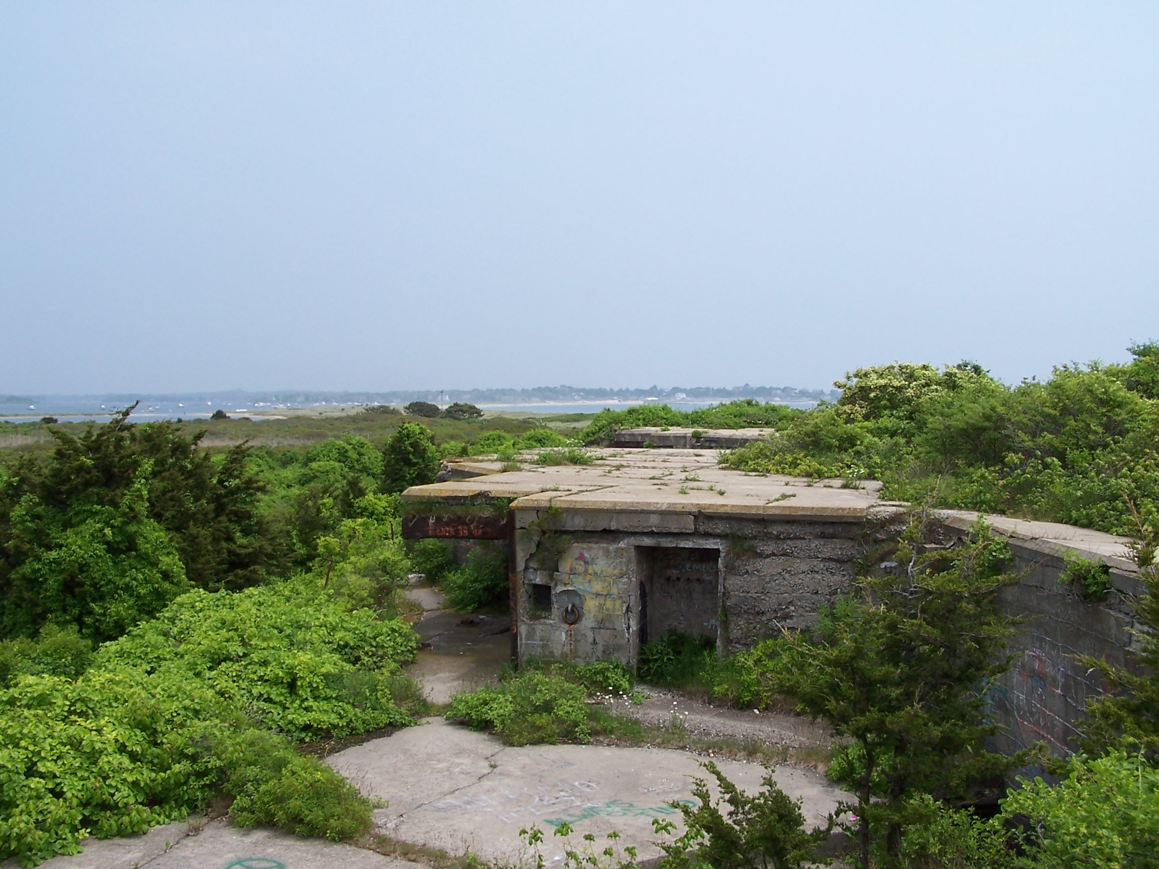 The remains of Fort Mansfield found on Napatree Point in Watch Hill, Rhode Island. Photo taken on 6/11/05 by Mark Siciliano.